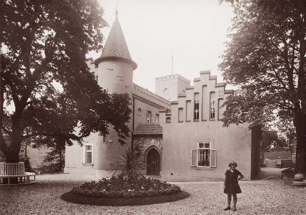 Bučánka at 1920s in Prague.